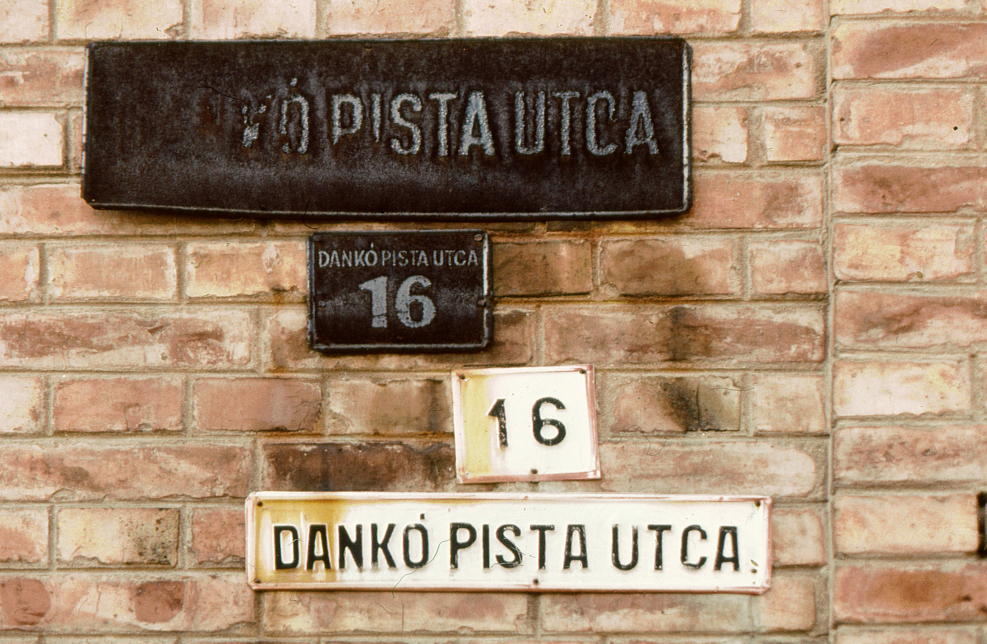 Danko Pista street 16 - Szeged, Hungary 1979 slide